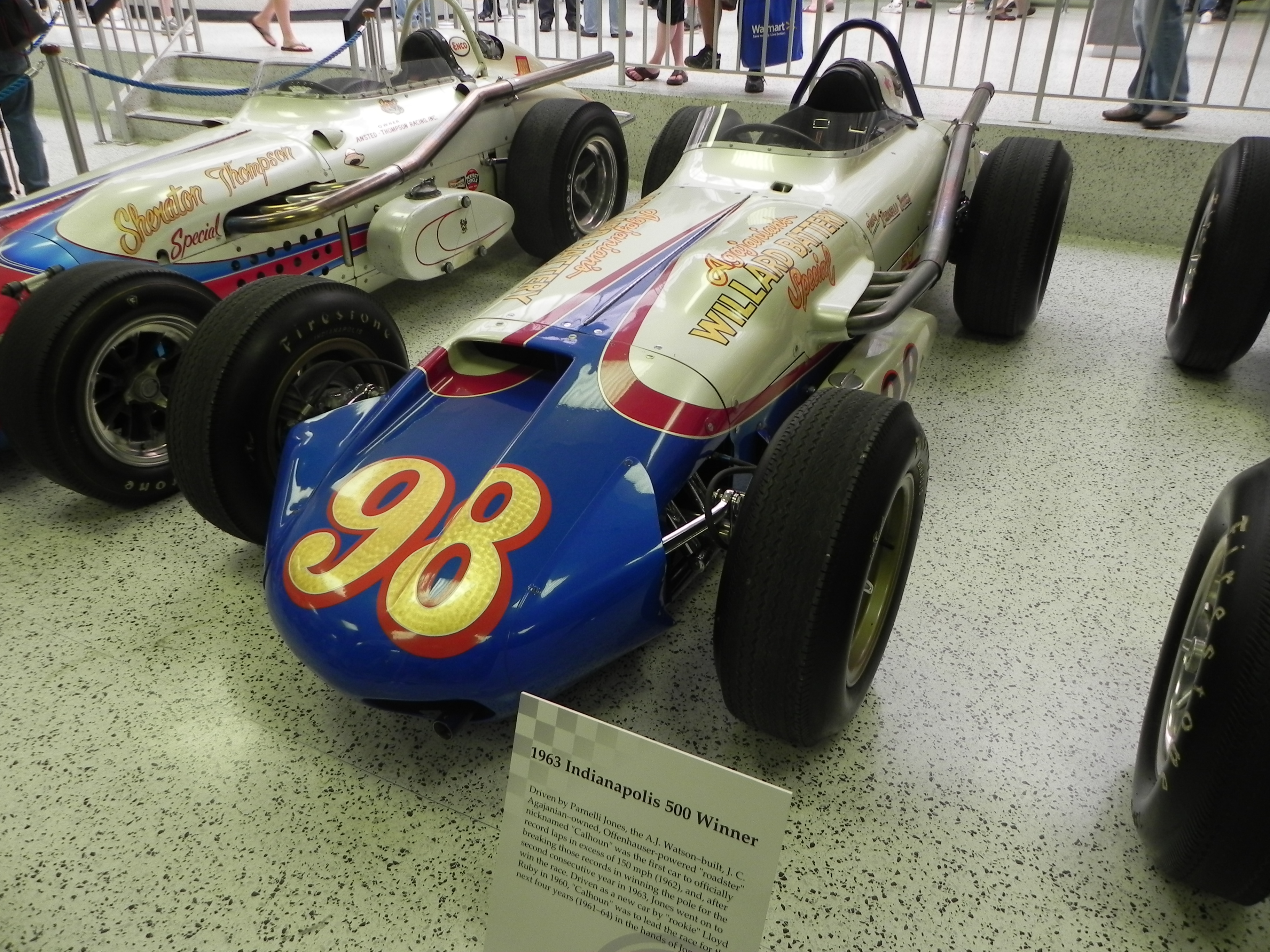 Image of the winning car of the 1963 Indianapolis 500 (Parnelli Jones). Photo was taken at the Indianapolis Motor Speedway Hall of Fame Museum, during the month of May 2011, at the 100th Anniversary "Ultimate Indianapolis 500 Winning Car Collection."